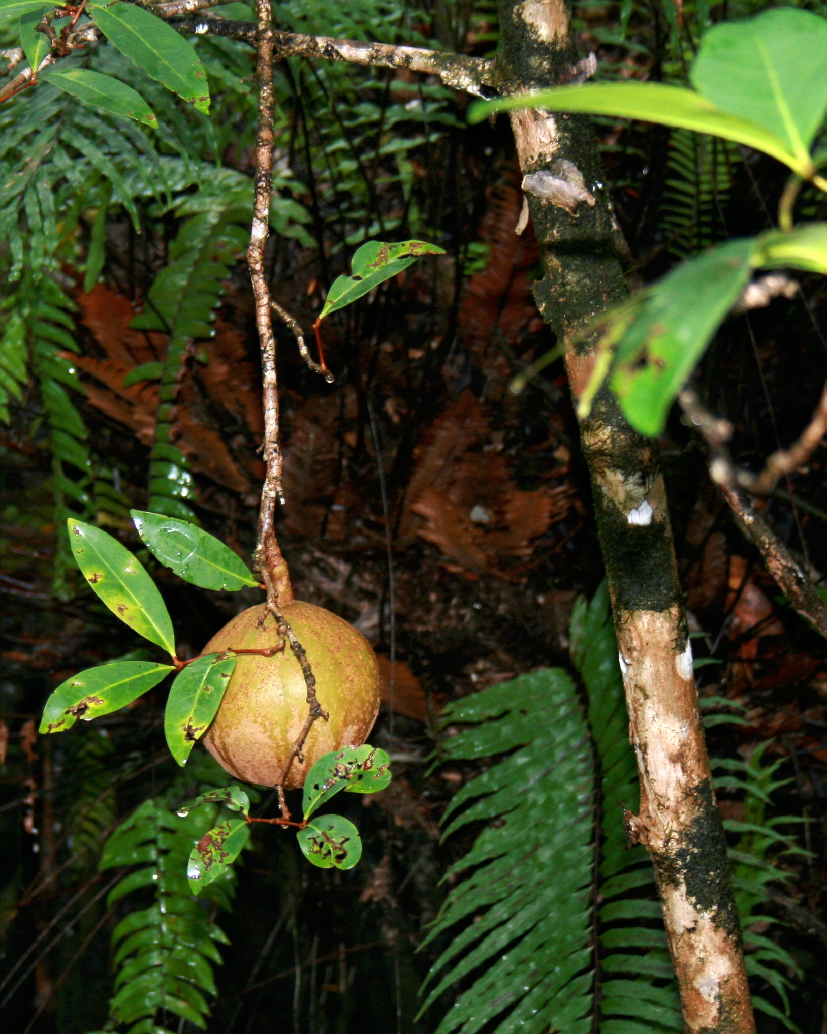 Cannonball mangrove (Xylocarpus granatum) in a mangrove swamp in the Daintree region of Queensland, Australia. Located on the Mardjja botanical walk (coordinates imprecise).